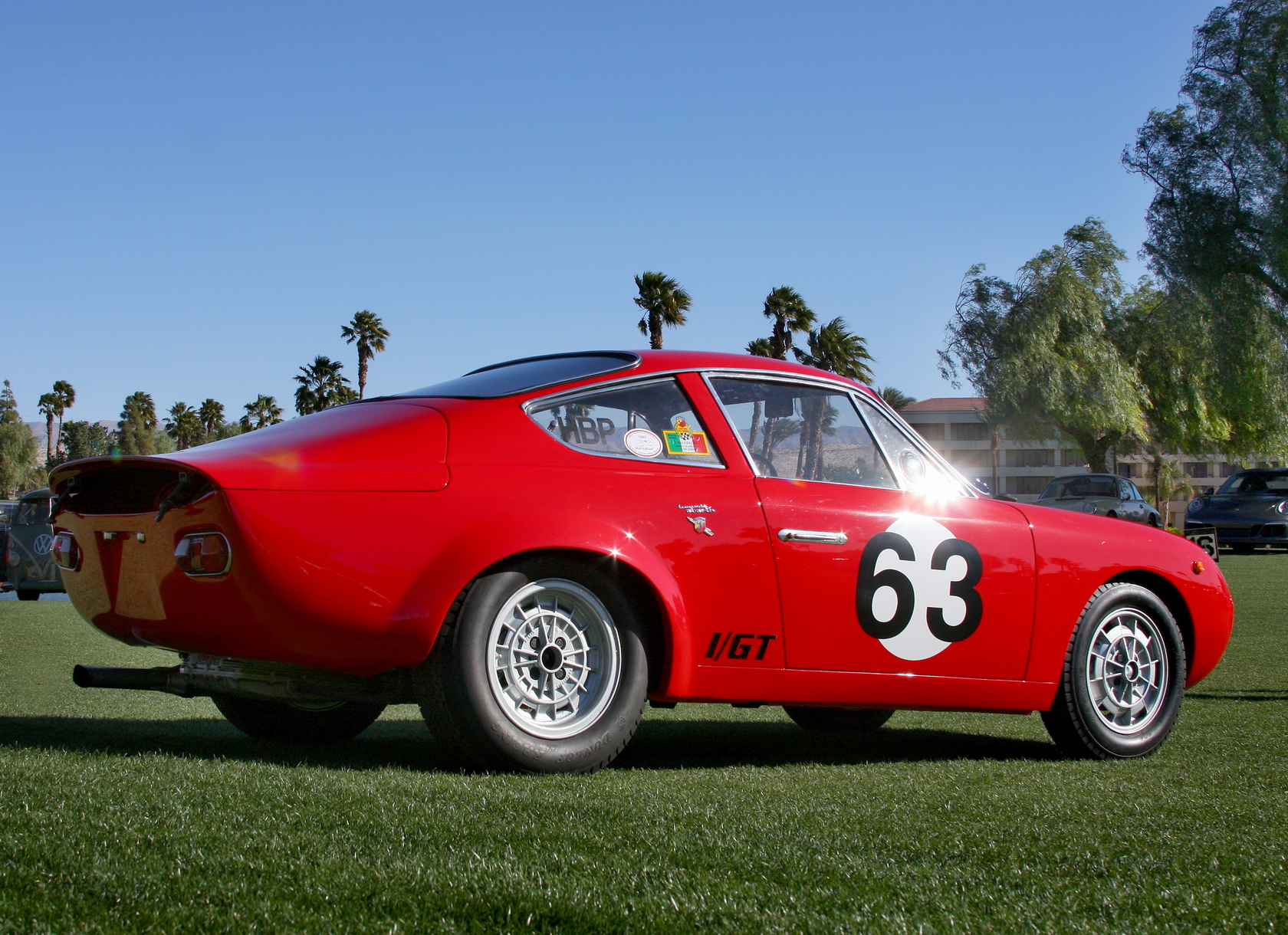 2013 Desert Classic Concours d'Elegance in Palm Springs, California.